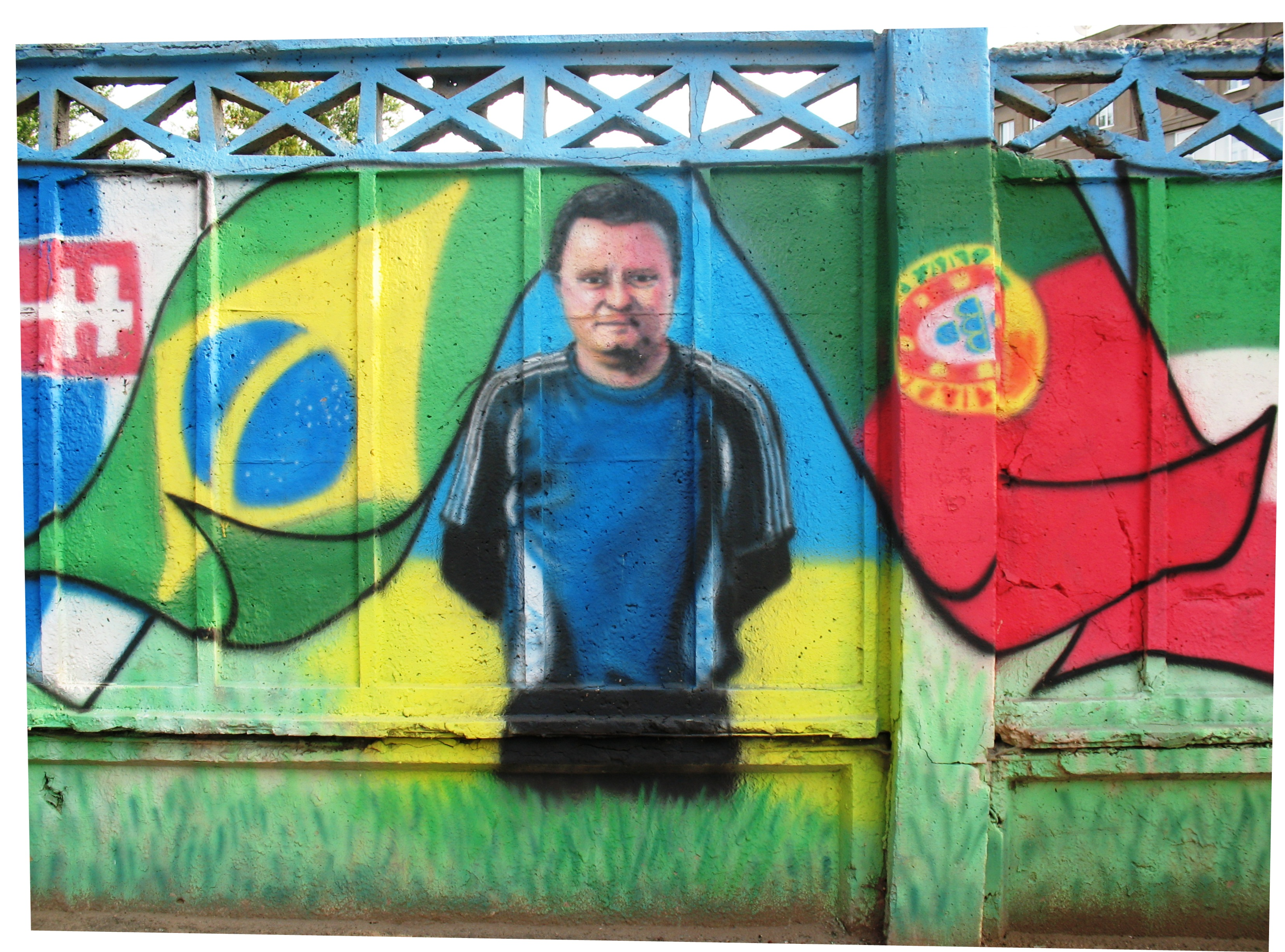 Miron Markevich. Graffiti. Kharkov.